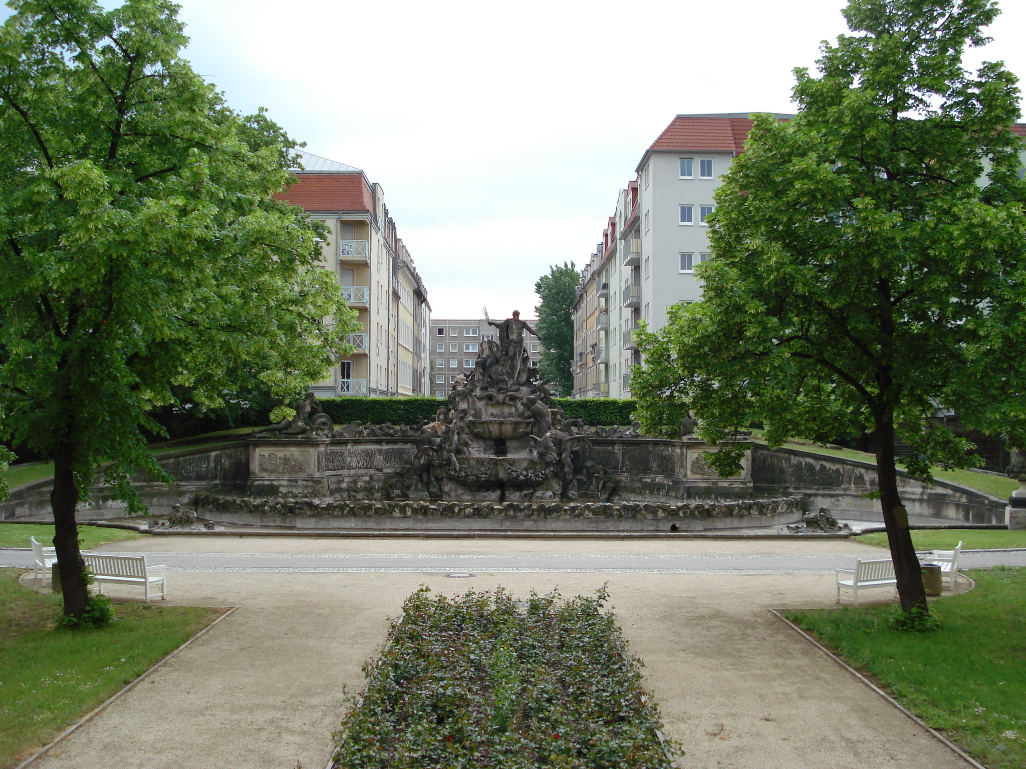 The exterior of the Dresden Friedrichstadt Hospital, with Neptunbrunnen (fountain)